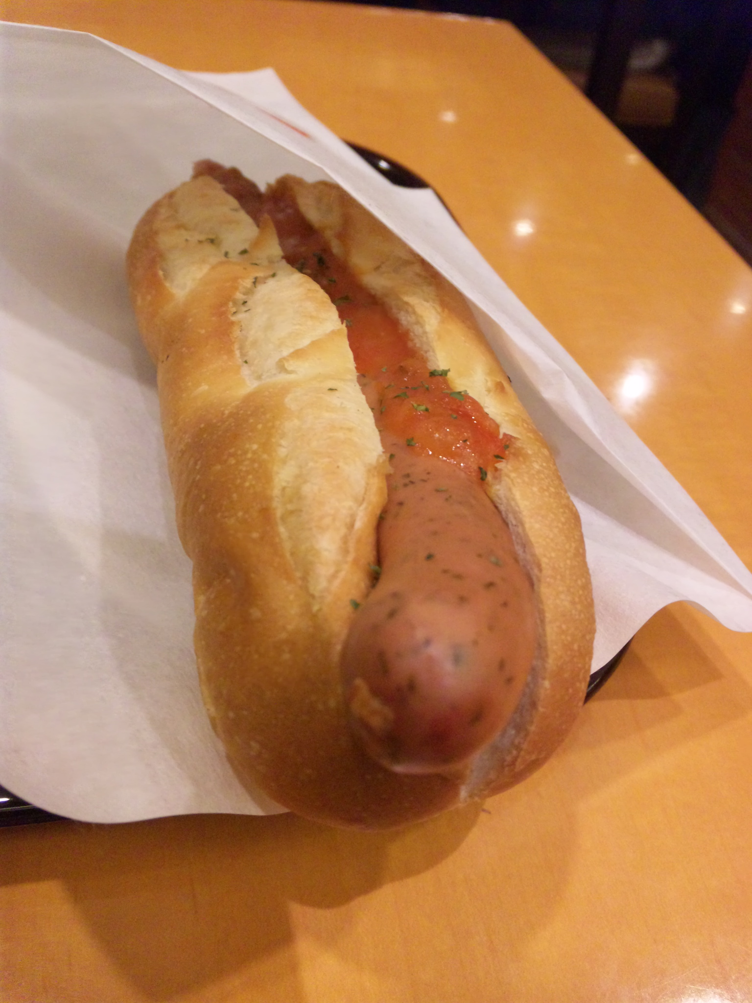 EXCELSIOR CAFFE Plune DOG